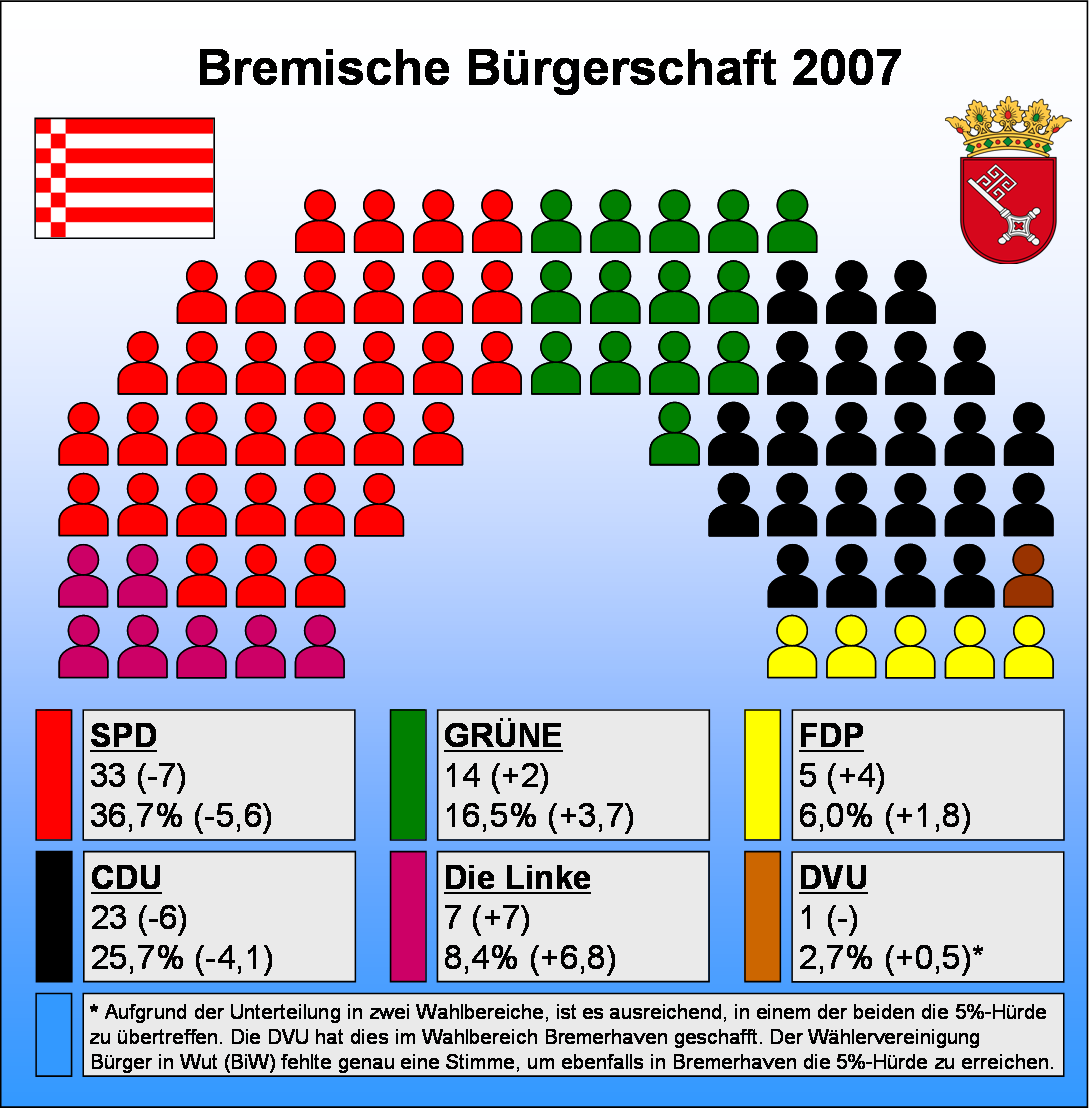 Seating of the Bremen Buergerschaft 2007